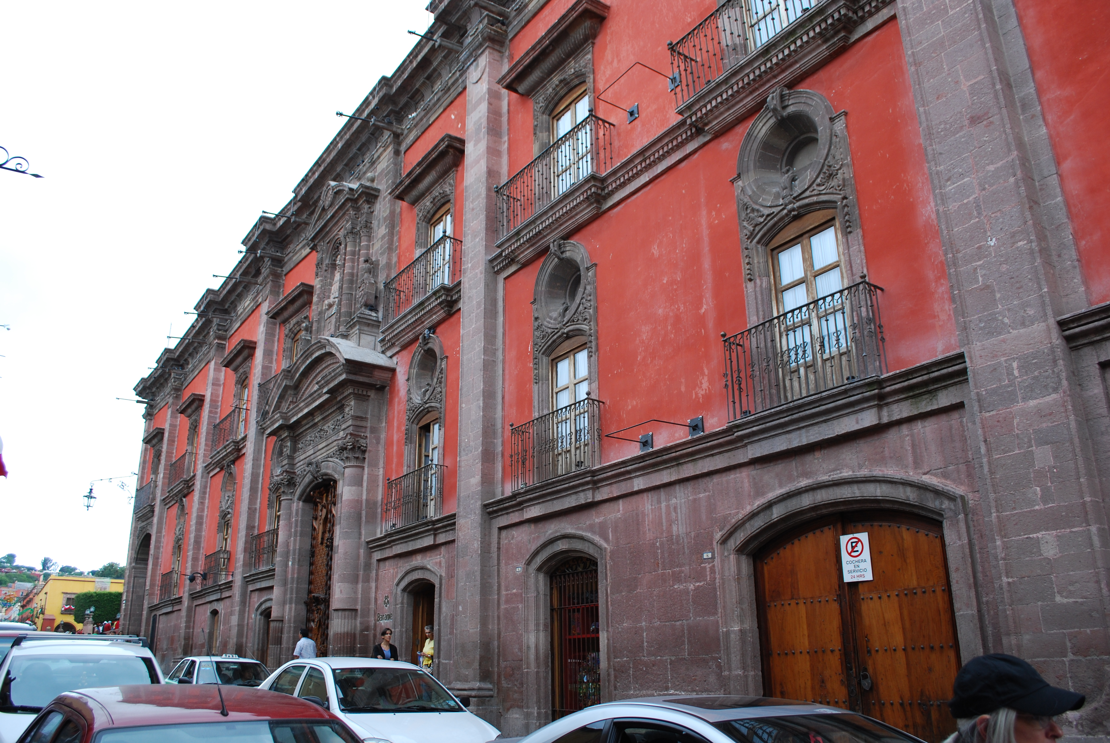 View of the north facade of the House of the Counts of Canal in San Miguel Allende, Guanajuato, Mexico